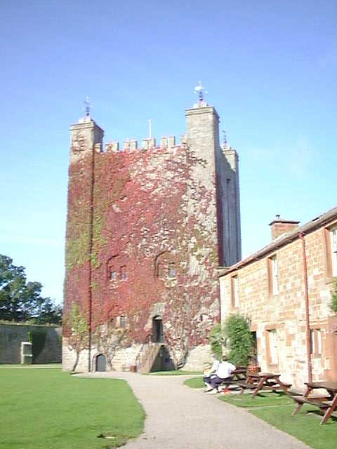 Photograph